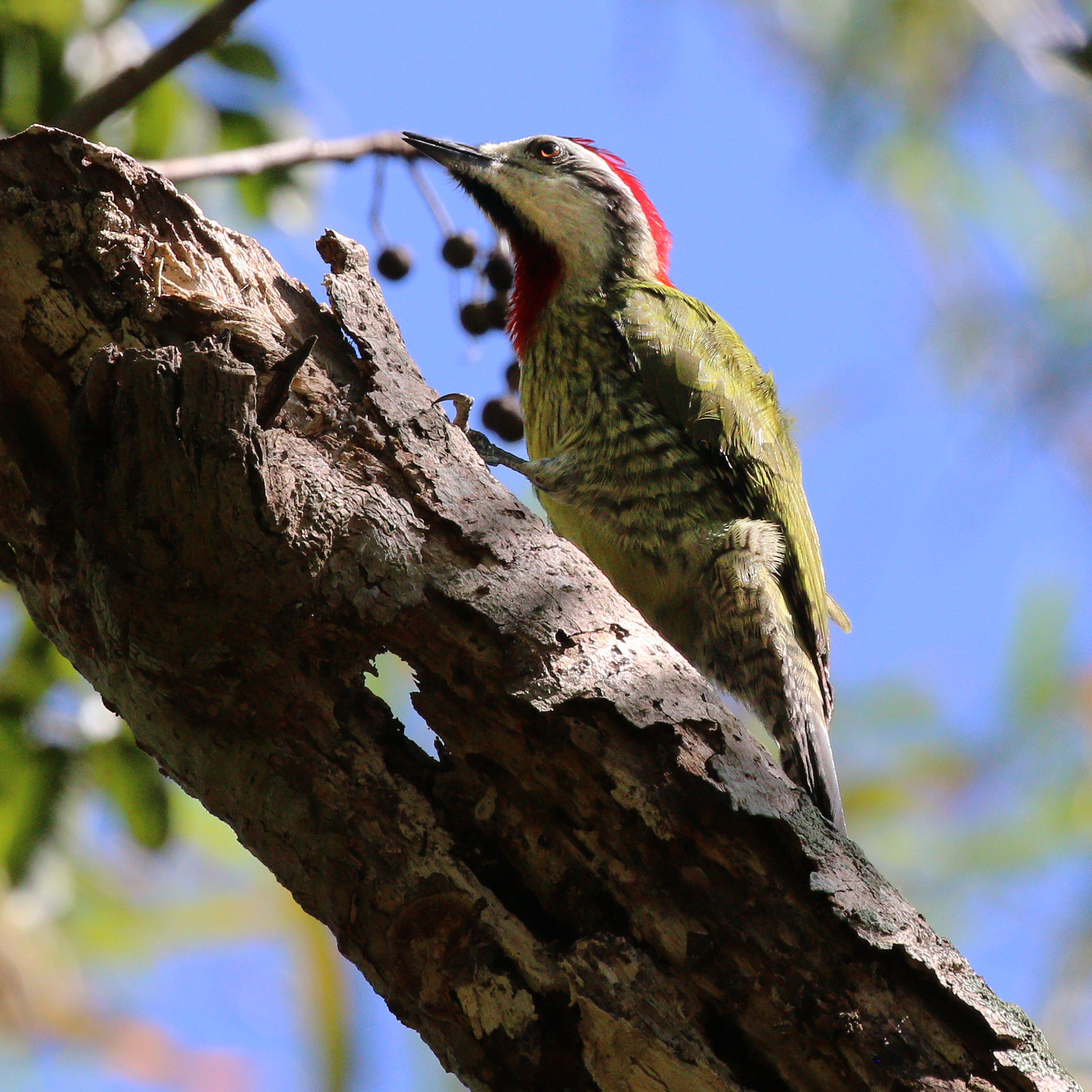 Cuban green woodpecker (Xiphidiopicus percussus percussus) male, Cuba